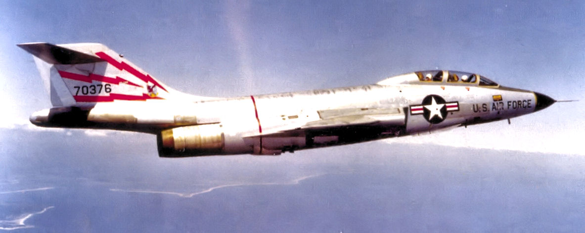 60th Fighter-Interceptor Squadron McDonnell F-101B-95-MC Voodoo 50-0376, Otis AFB, Massachusetts, 1960